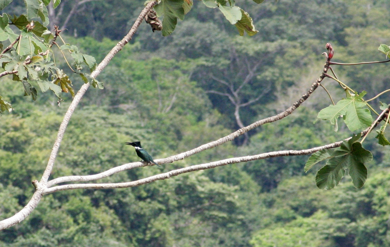 The research station at Fungu Island, Suriname jungle, primary rain forest.